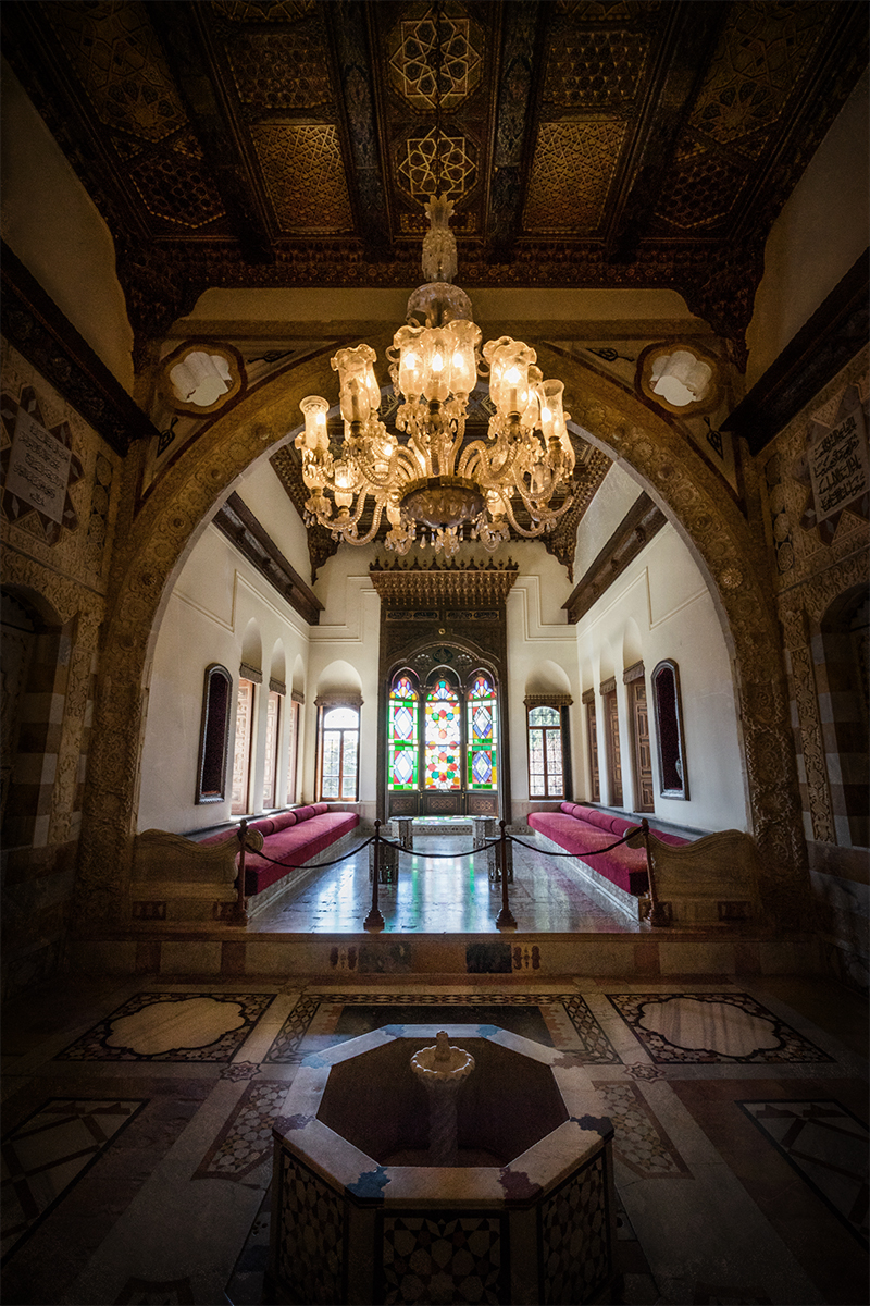 Beiteddine Palace's interior (the Office of Boutros Karami?). Beiteddine Palace is said to be the best example of early 19th century Lebanese architecture.